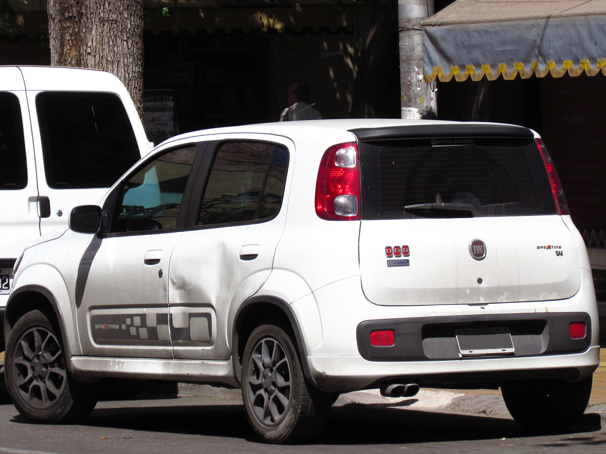 Fiat Uno 1.4 Sporting 2011